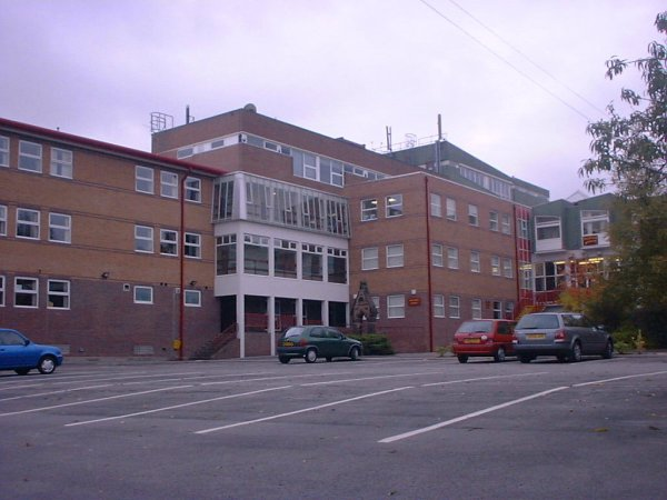 This is just a photo that I took a while ago. It's recent enough, but isn't obstructed by all the building work they usually have going on. I've been quite careful not to show anything like number plates. The metadata about the camera is complete garbage.